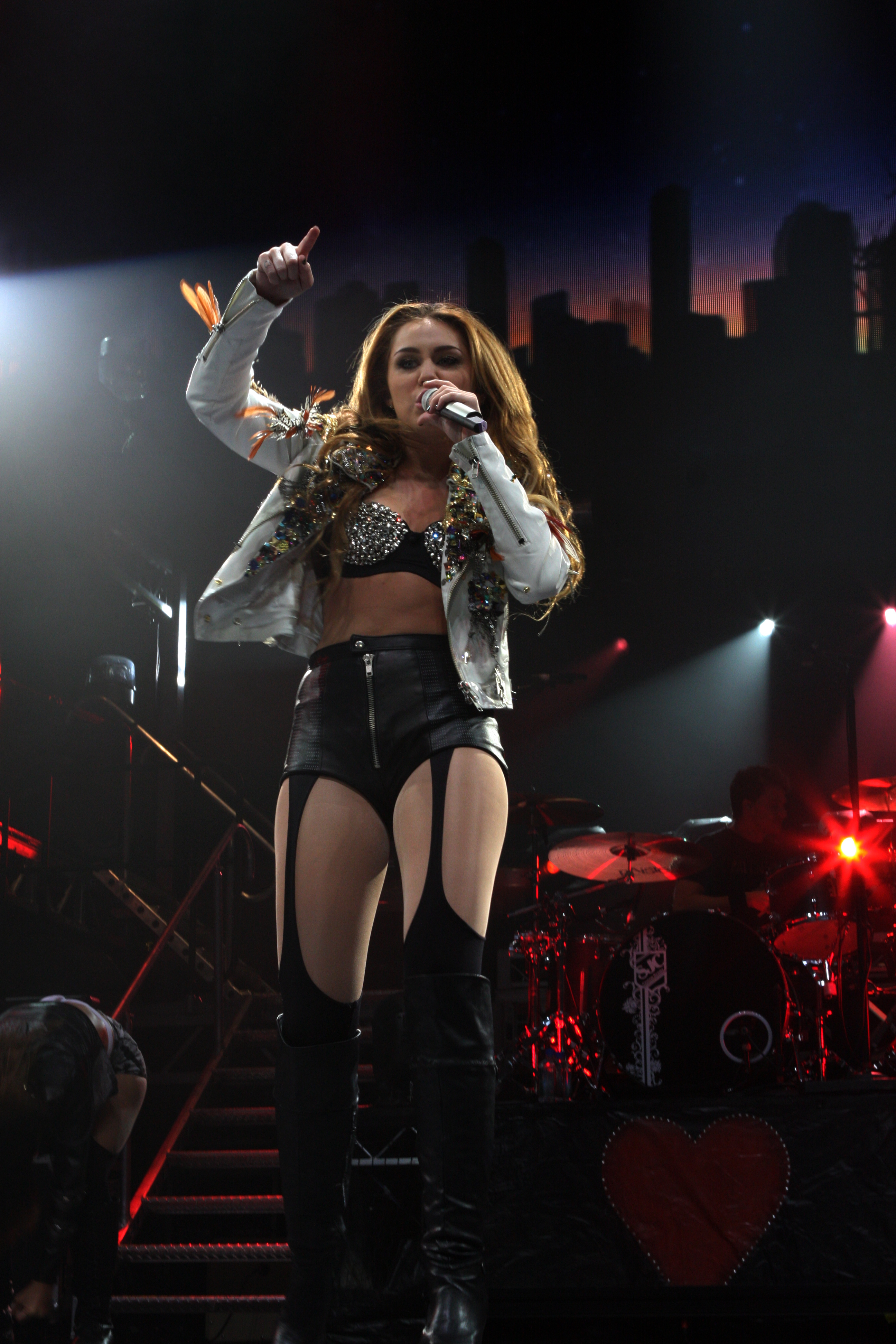 Pop singer Miley Cyrus performing in Sydney, Australia as part of her Gypsy Heart Tour.